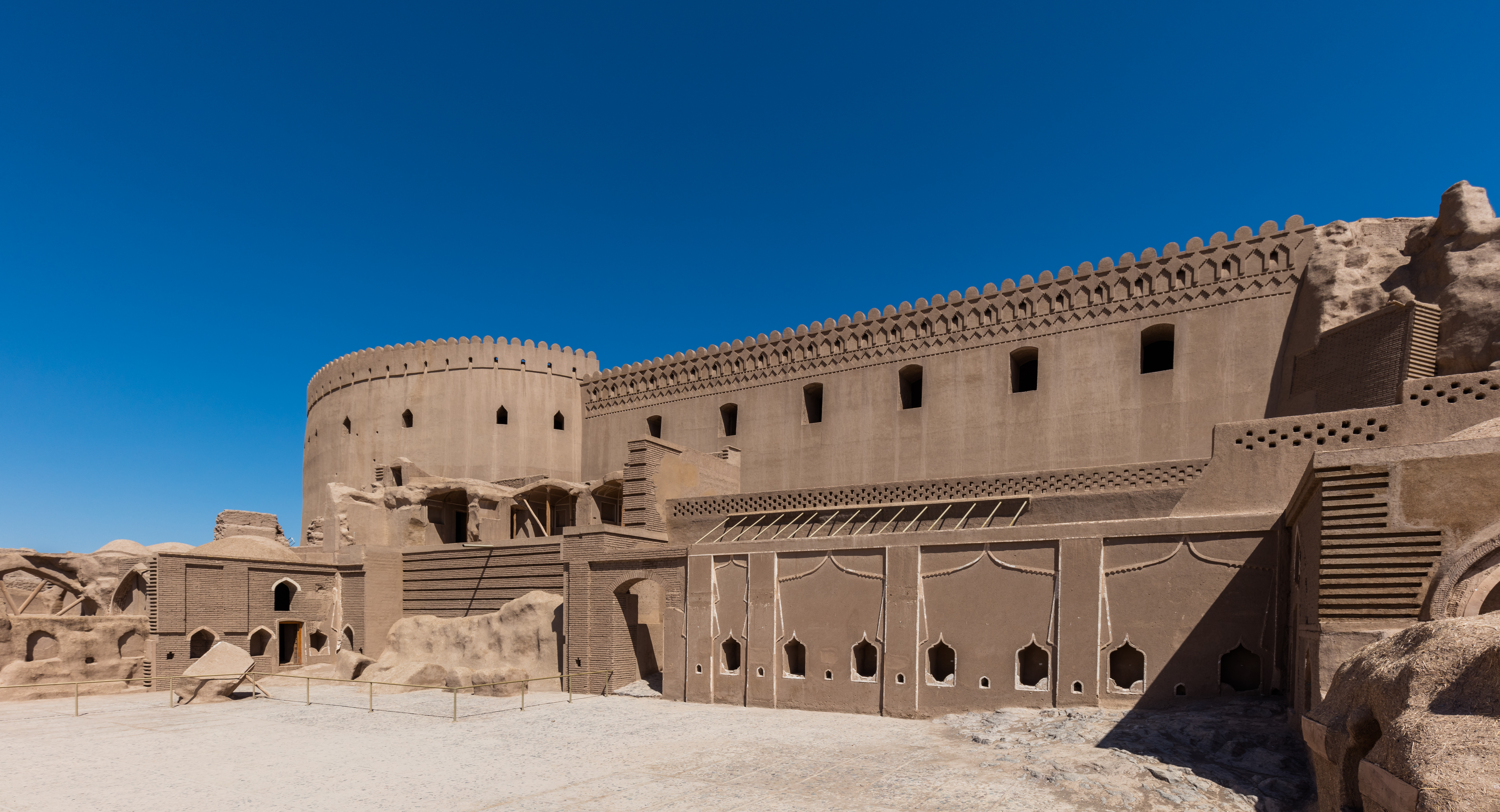 Fortress of Bam, Iran